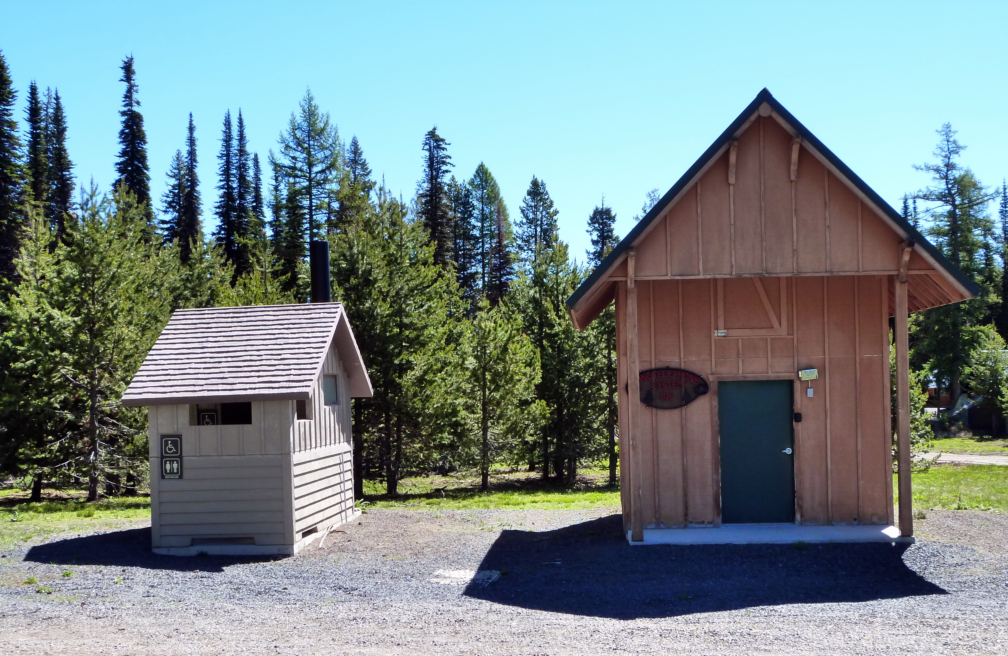 As of the photo date, these appear to be the only two public/commercial buildings in Greenhorn, Oregon, United States.